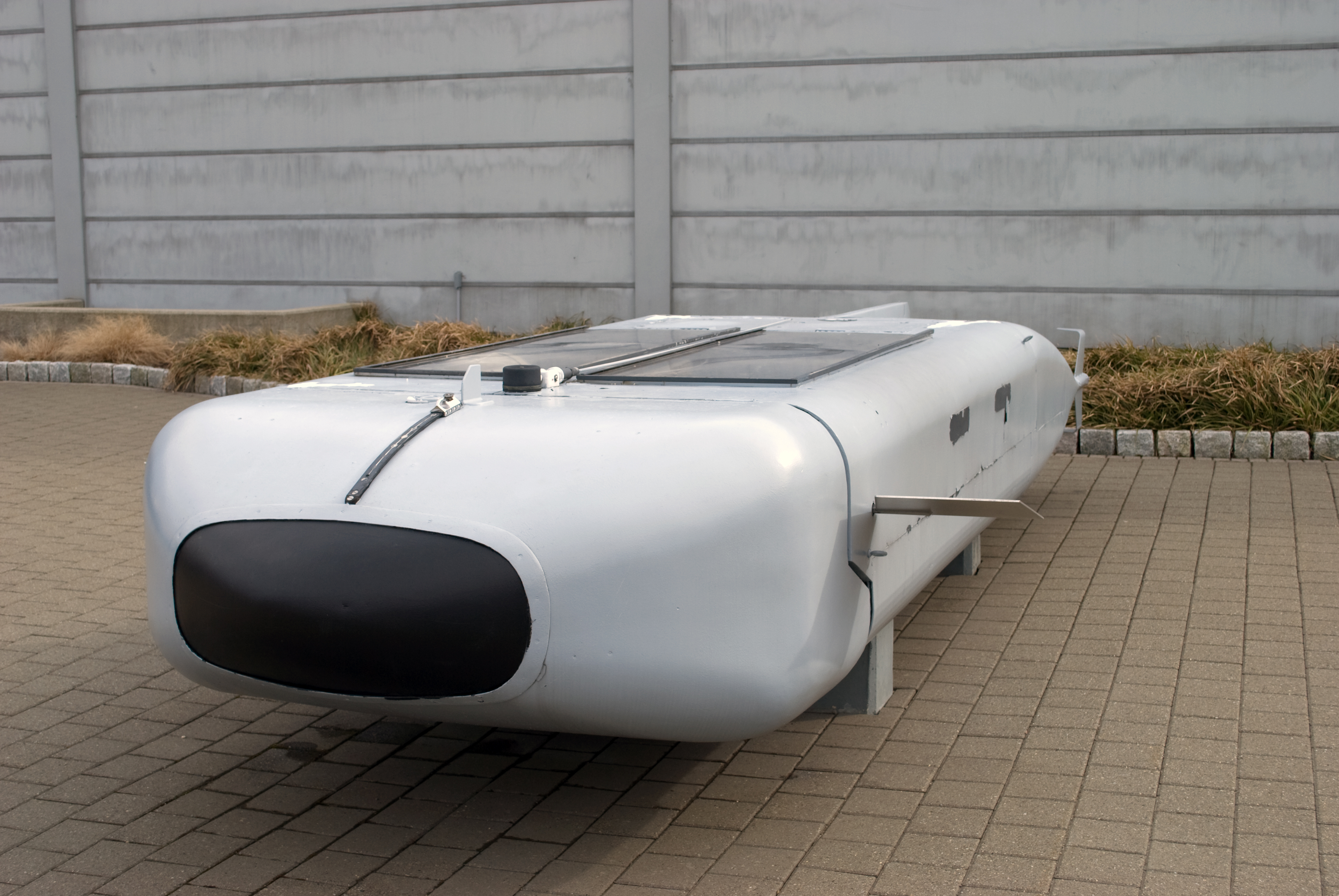 Photograph of US Navy SDV MK IX Swimmer Delivery Vehicle. Non-watertight submersible held two scuba-equipped swimmers and was retired in 1995. At U.S. Navy Submarine Force Museum and Library, Groton CT.